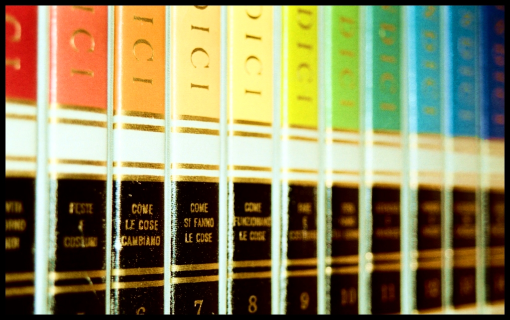 I quindici, children books.